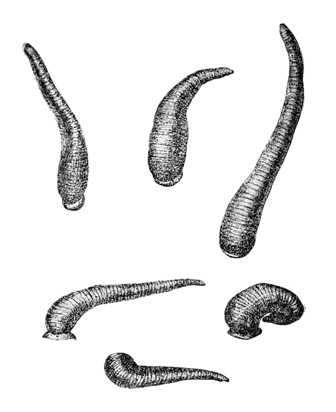 Movement of Limnatis nilotica (Hirudinea: Hirudinidae).